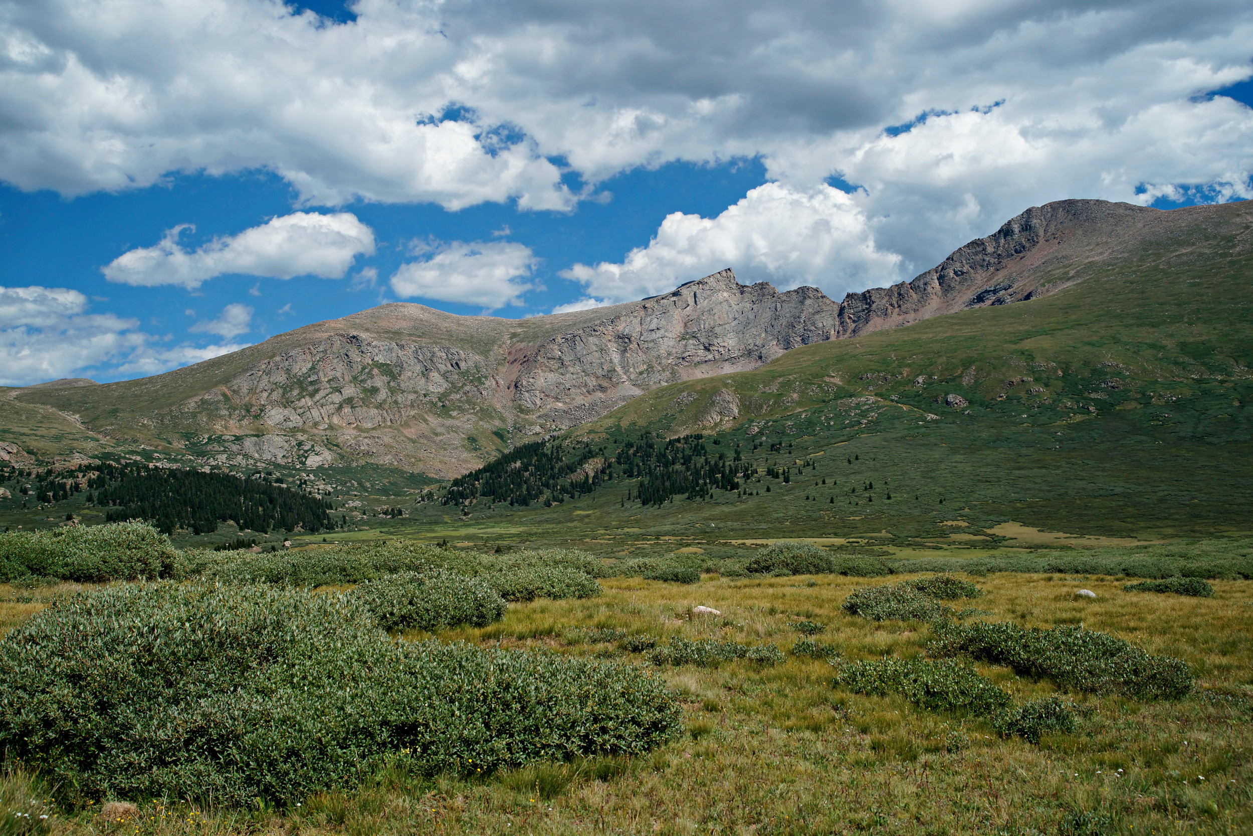 This Colorado Front Range Rocky Mountain Pass is located in Southwestern Clear Creek County in the Pike National Forest, which is west of Denver, and is traversed by the Guanella Pass Scenic Byway. This byway connects I70 at Georgetown to US 285 at Grant. At the summit of this pass are hiking trails which lead to Mount Bierstadt and Mount Evans. Gray's and Torrey's Peaks are also visible from the Guanella Pass Summit.